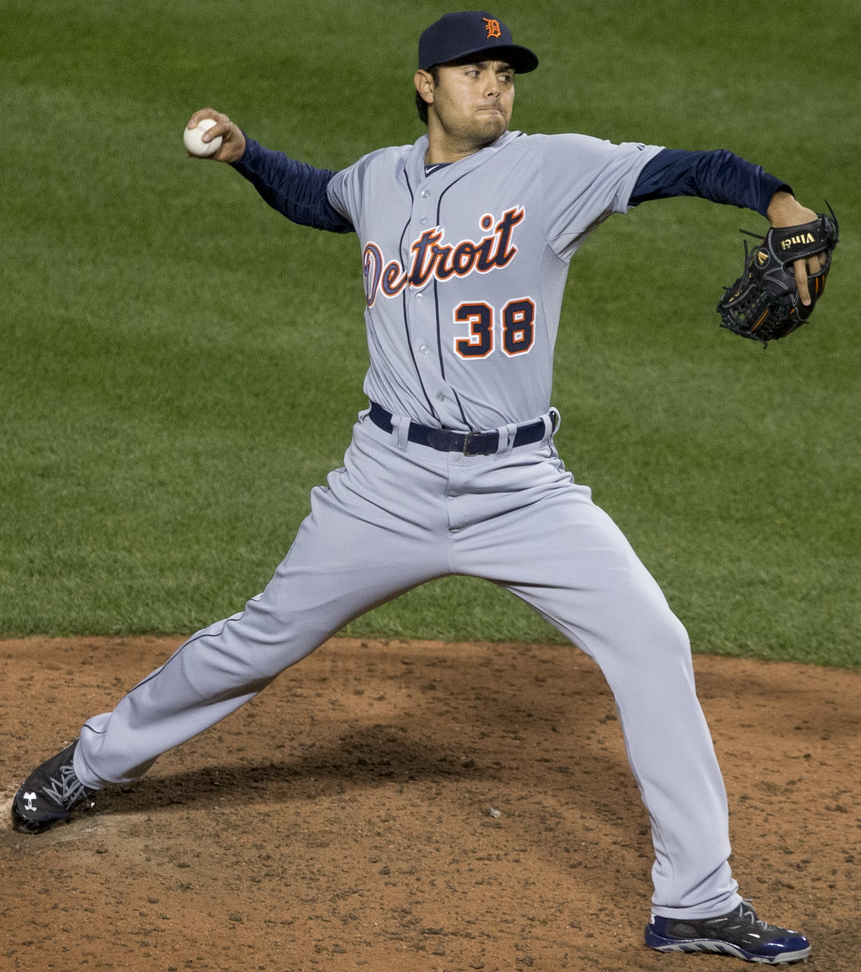 Joakim Soria with the Detroit Tigers